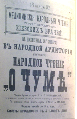 Advertisement of lecture in Kyiv (1897)